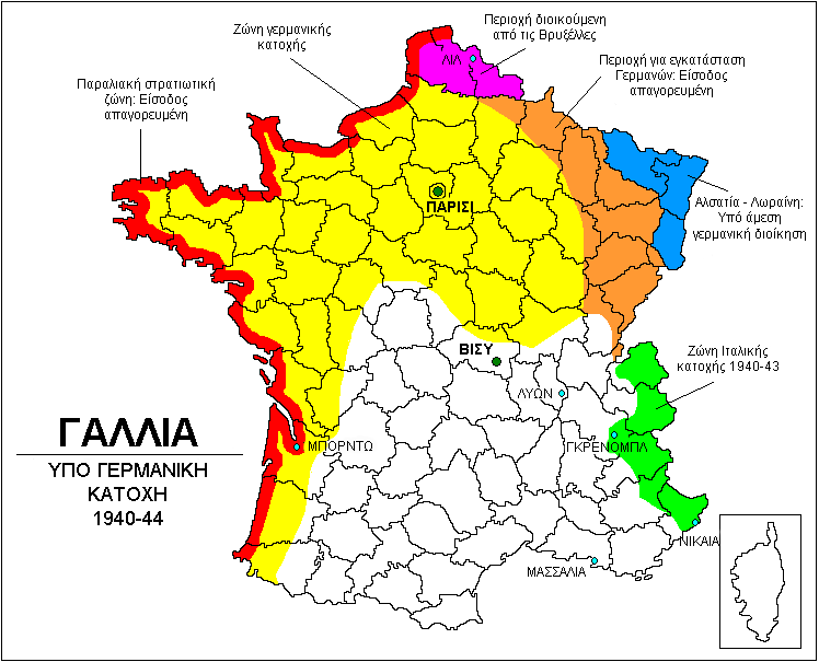 Map of France during the WWII in greek